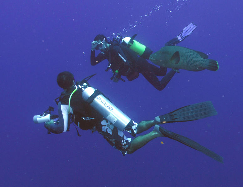 diver signal for the Cheilinus undulatus